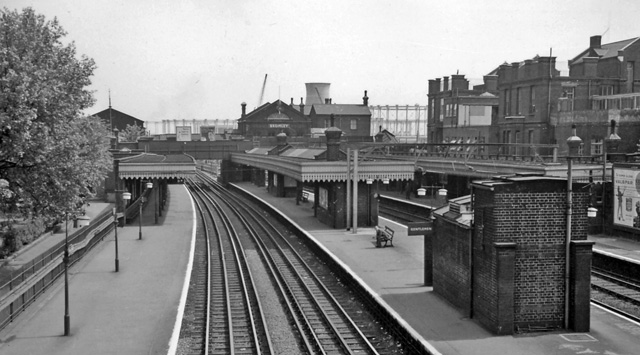 Bromley (by-Bow) Station. View eastward, towards Barking and Upminster on LTE electric lines, also towards Tilbury and Southend on ex-London, Tilbury & Southend main line from Fenchurch Street (on right). Only a few main-line trains called at Bromley after 27/10/40 and they ceased to do so after electrification in 1962. The station was renamed 'Bromley-by-Bow' in 1967 and was transferred from BR to the LTB on 1/1/69